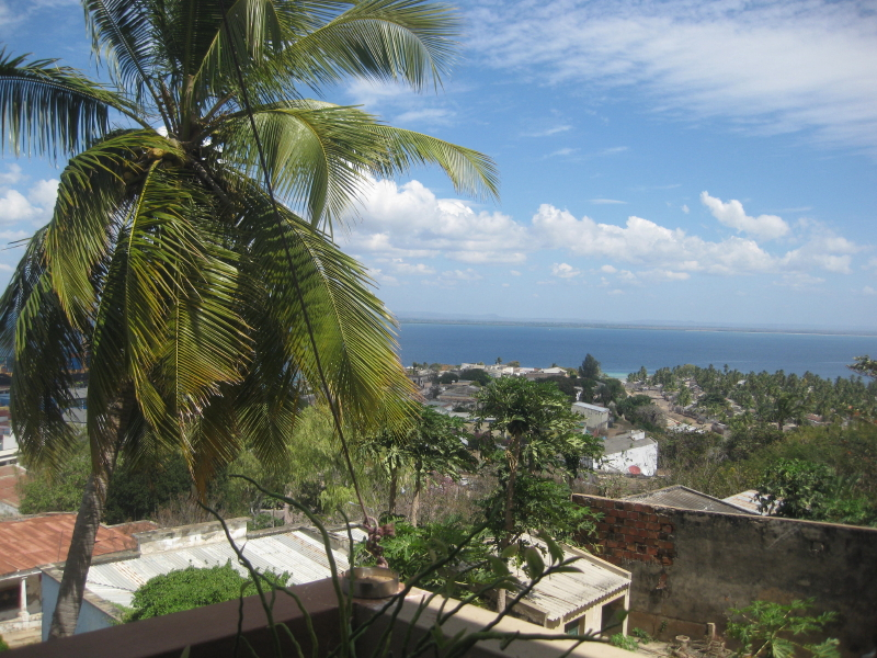 View on Pemba Bay and the old town of Pemba in Mozambique.